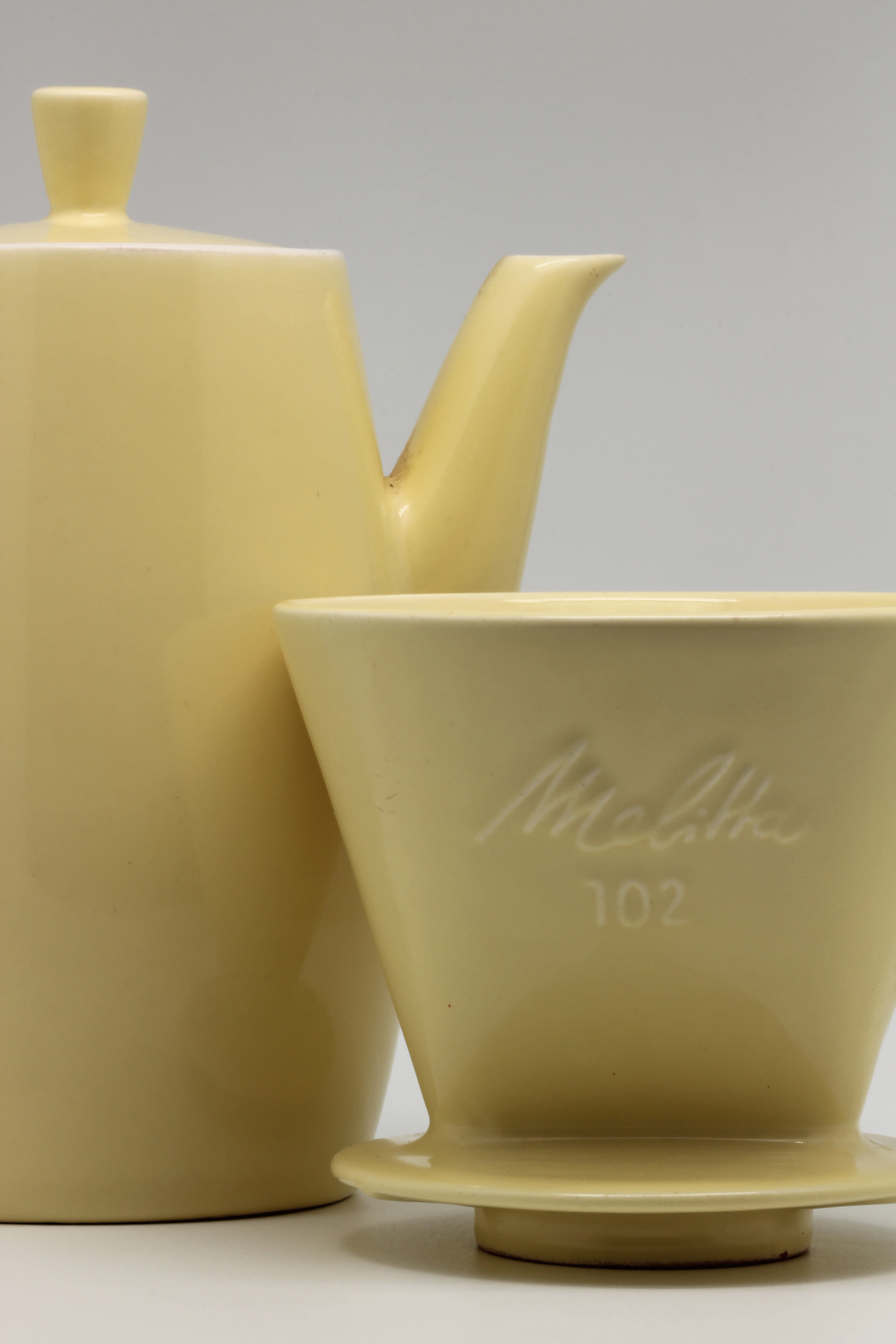 Melitta 14-100 coffeemaker, filter size: 102.